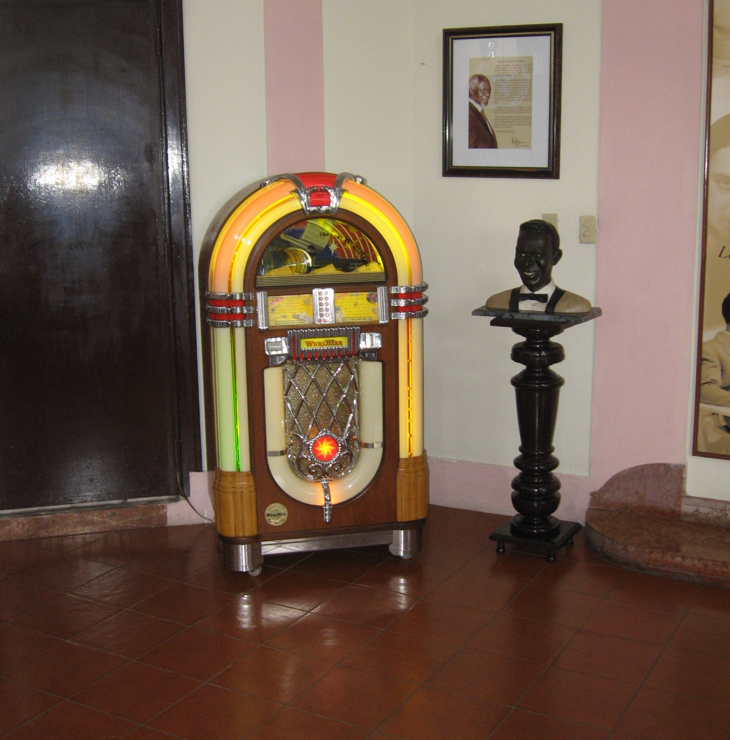 Juke box and bust of Nat King Cole in the Hotel Nacional, Havana, Cuba